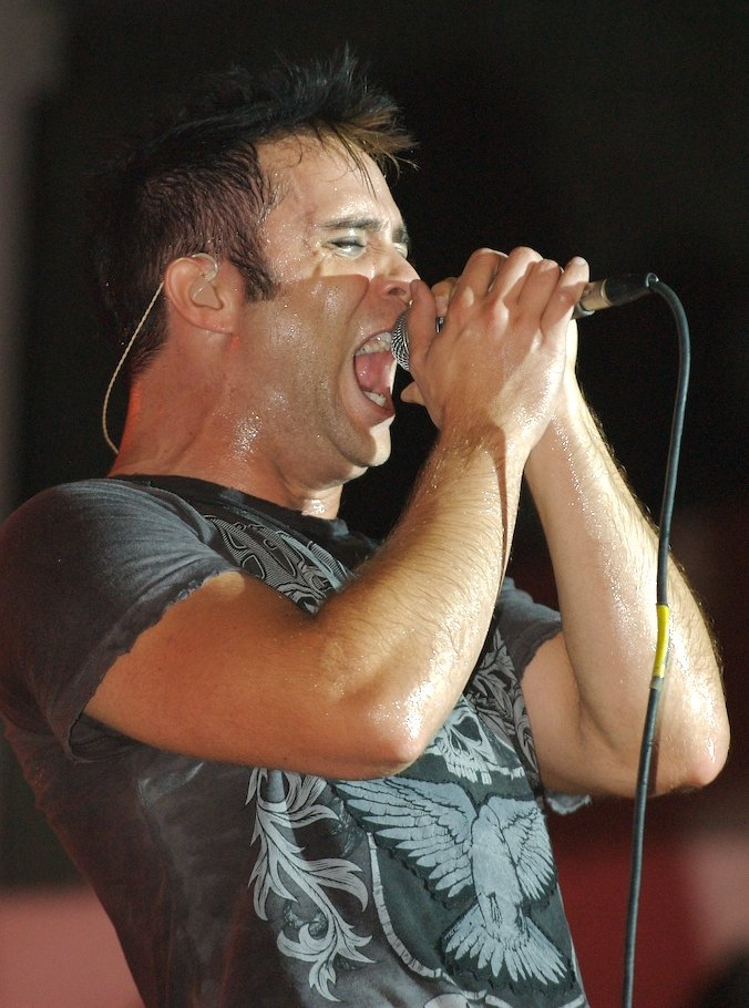 John Cooper, performing with Skillet at the 2006 Kern County Fair in Bakersfield, California.